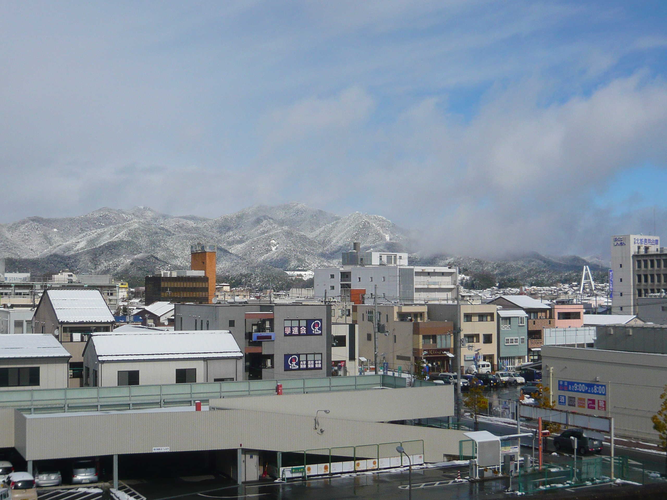 福知山駅プラットフォームより View toward northeast from platform of Fukuchiyama station 2011.1.10